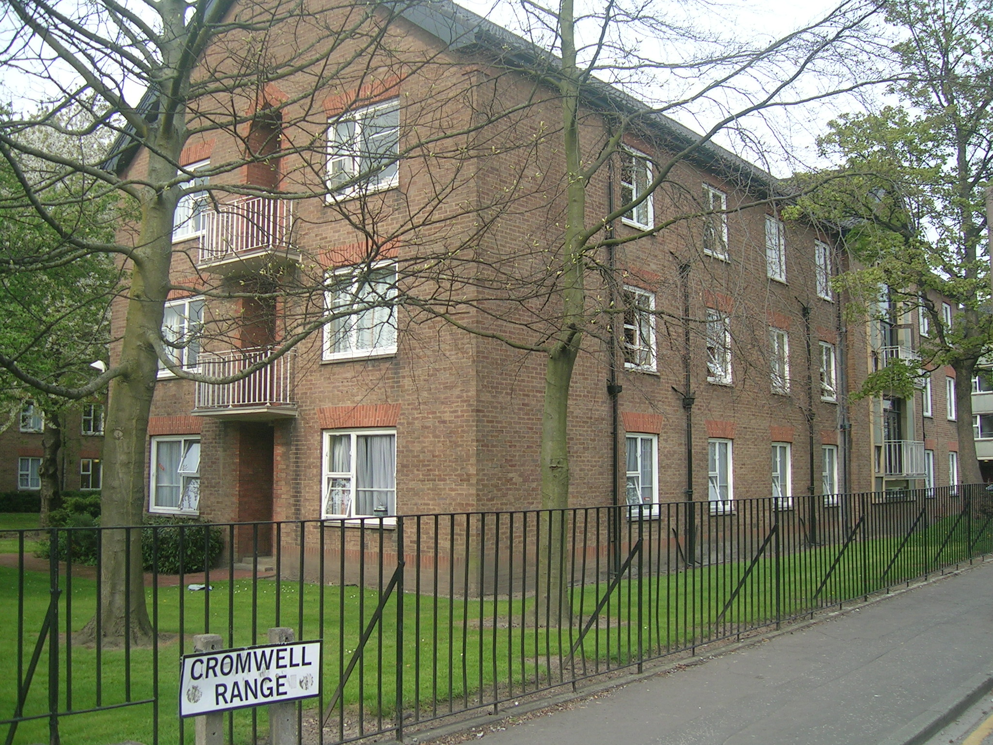 The 'Thomas More' accommodation block of the Allen Hall of residence at the University of Manchester's Fallowfield Campus